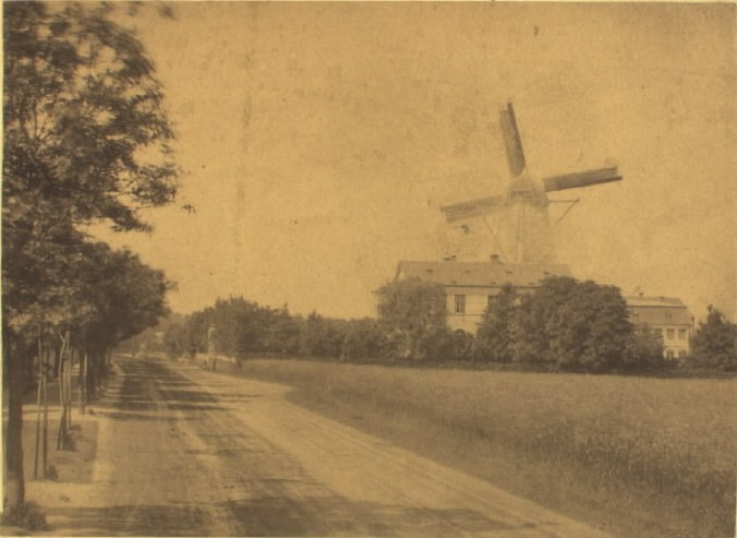 Svanemøllen.